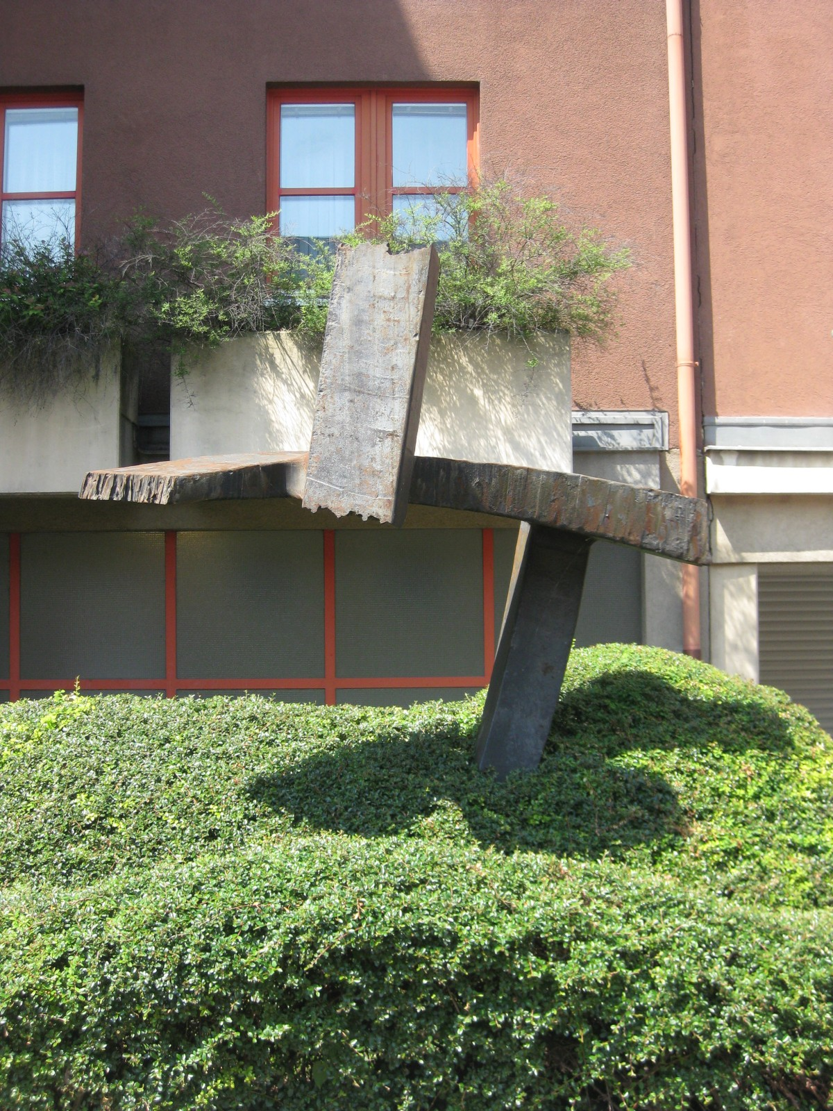 iron sculpture O.T. (without title) by Stephan Fillitz, 1982, Ottakring, Vienna.